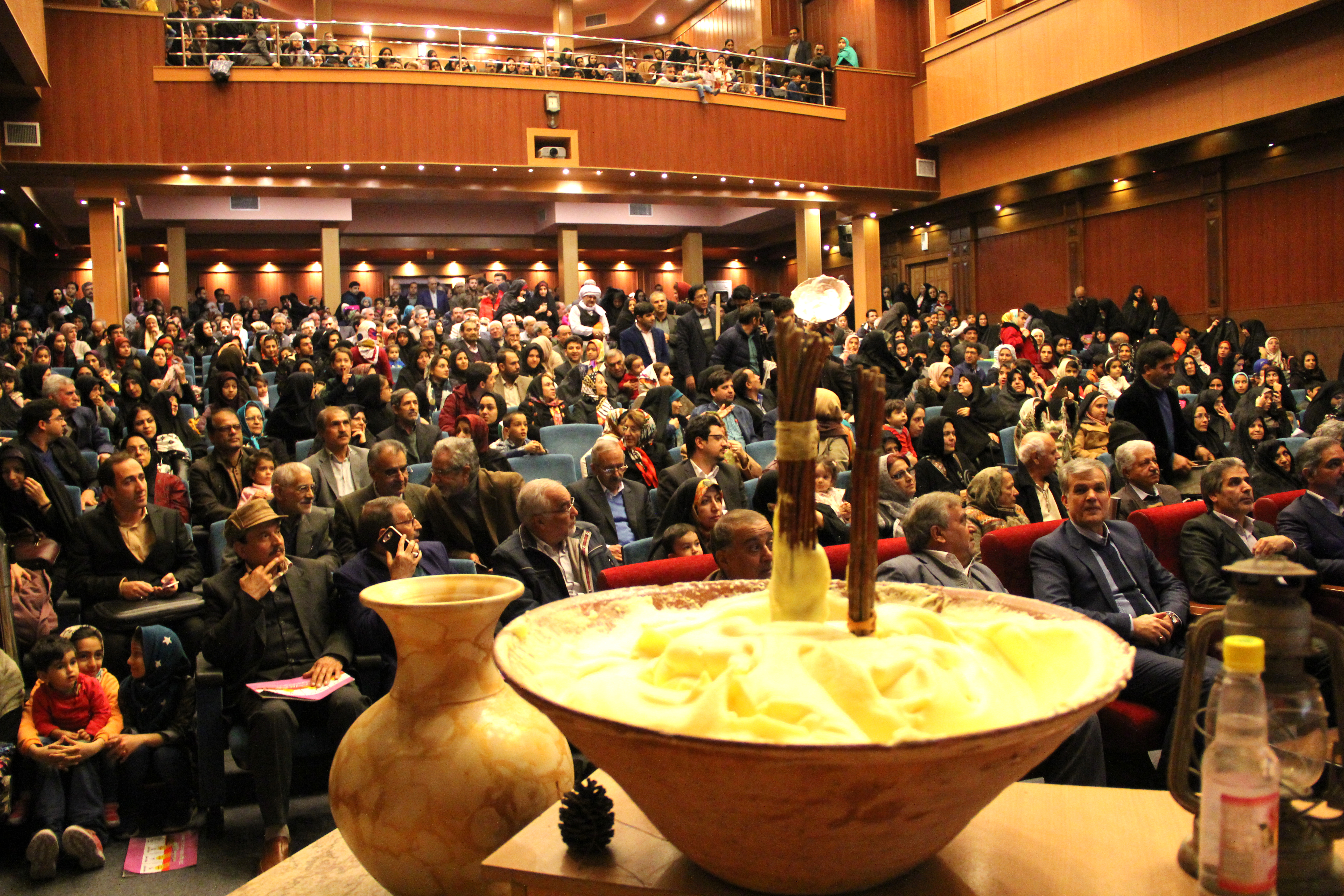 KafBeex a kind of sweet in Iran